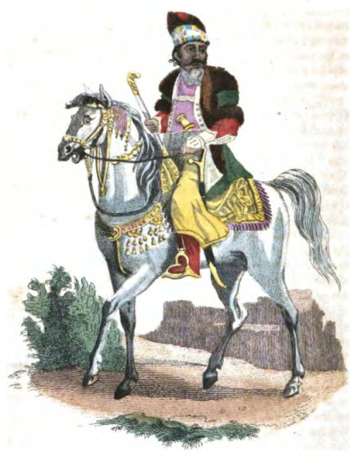 Persian of High Rank. Extracted image, p.133. from the book "Persia"